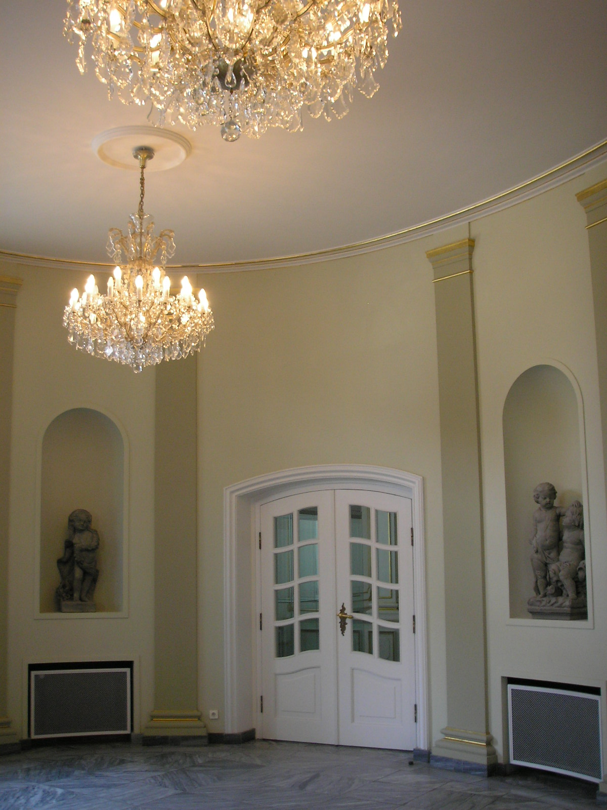 Foyer of the Ephraim-Palais in Berlin, located in the Nikolaiviertel.